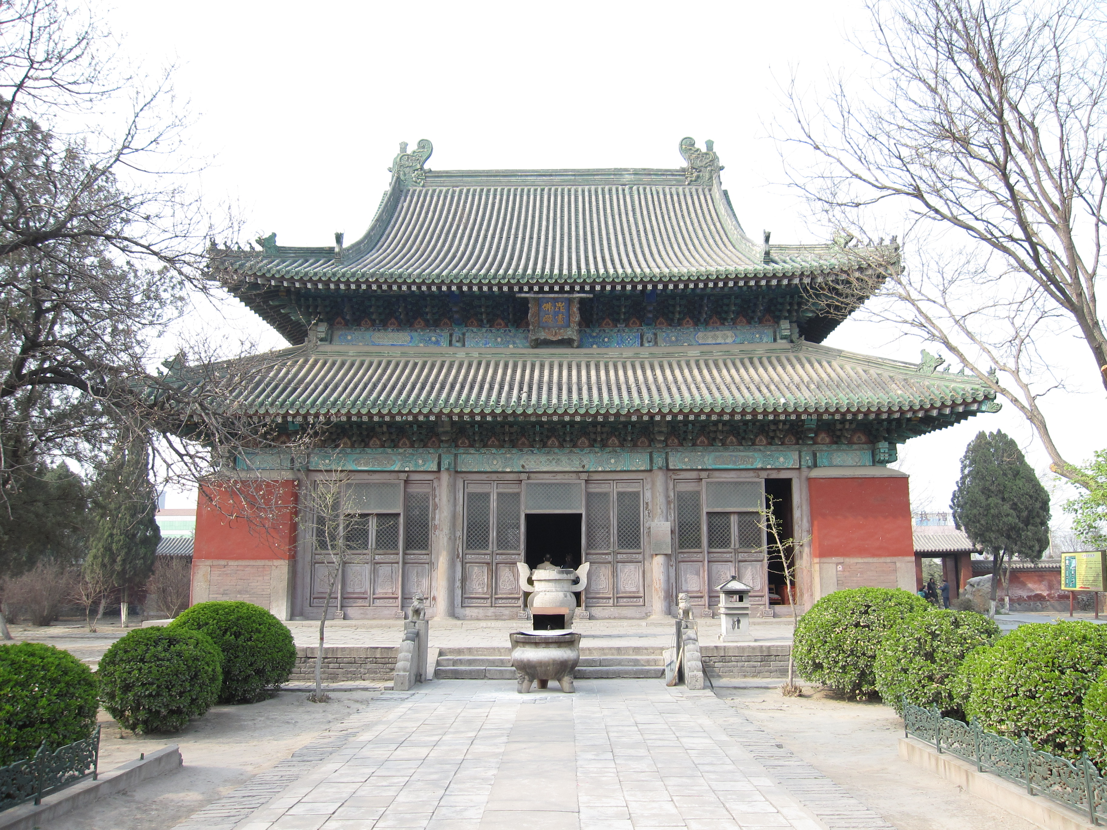 The Hall of Vairocana at the Longxing Temple, in Zhengding, China. Built during the late Ming Dynasty, and moved in 1959 to its present location.